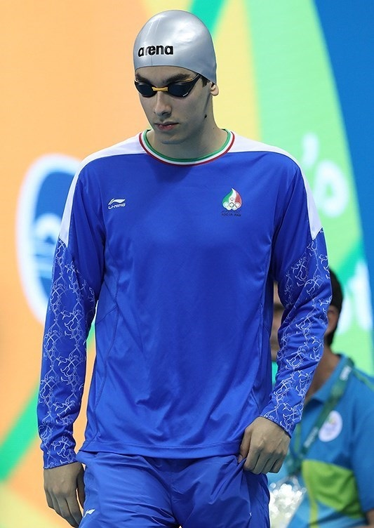 Swimming - 2016 Summer Olympics in Rio de Janiero